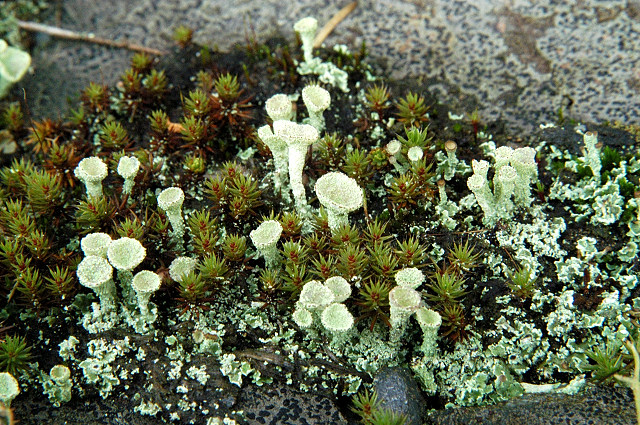 Picture taken in Commanster, Belgian High Ardennes . Species: Cladonia fimbriata